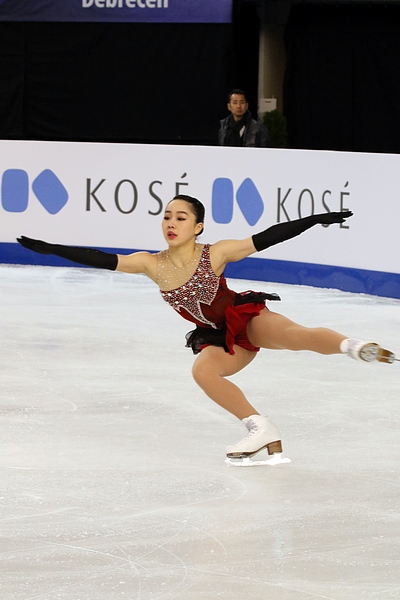 Photos – Junior World Championships 2016 – Ladies (Wakaba HIGUCHI JPN – Bronze Medal)